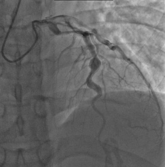 LAD is ectatic; largest aneurysm = 6.5 mm in diameter. Not shown is a similar sized RCA aneurysm